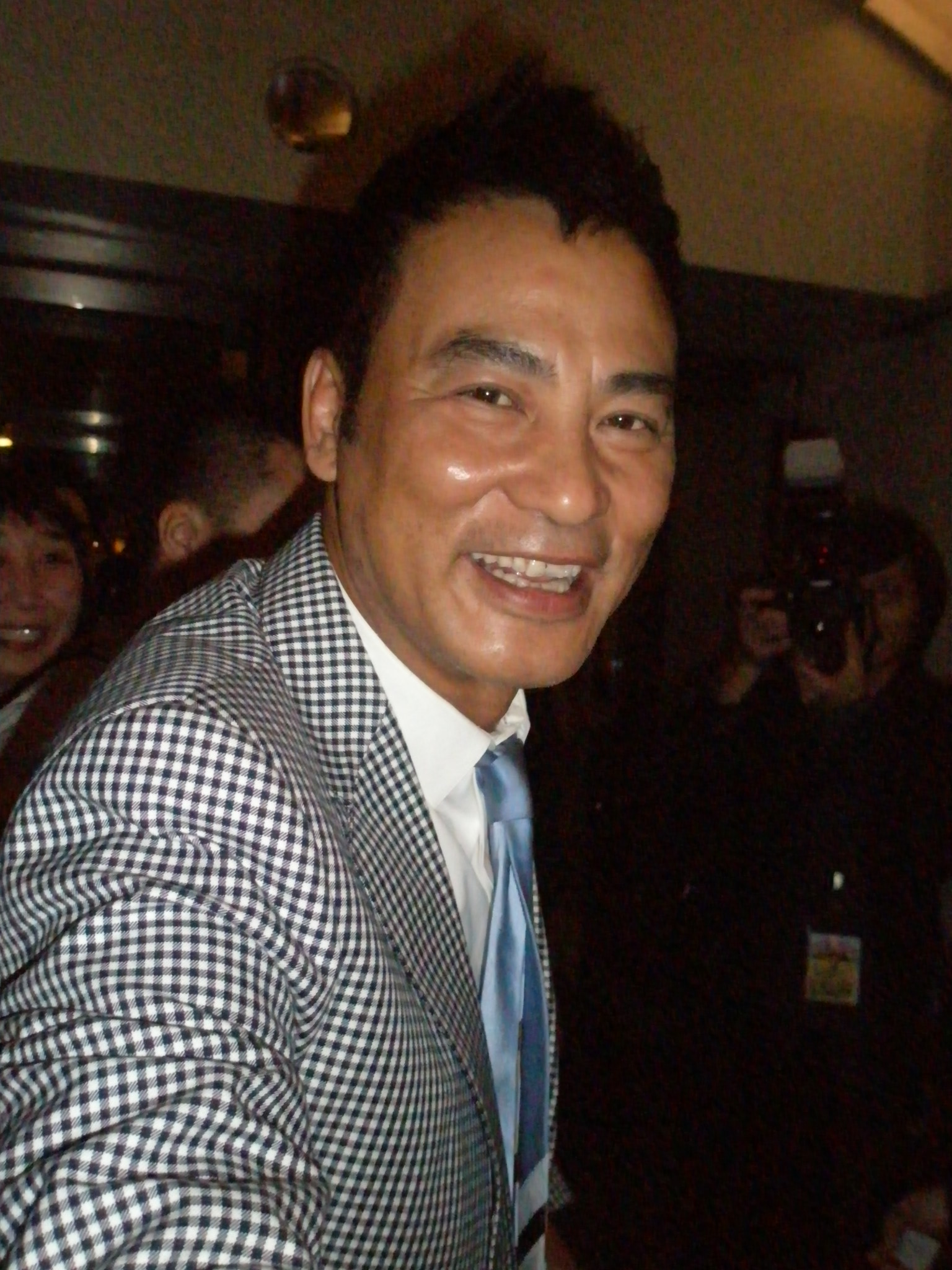 Simon Yam at New York Asian Film Festival 2010